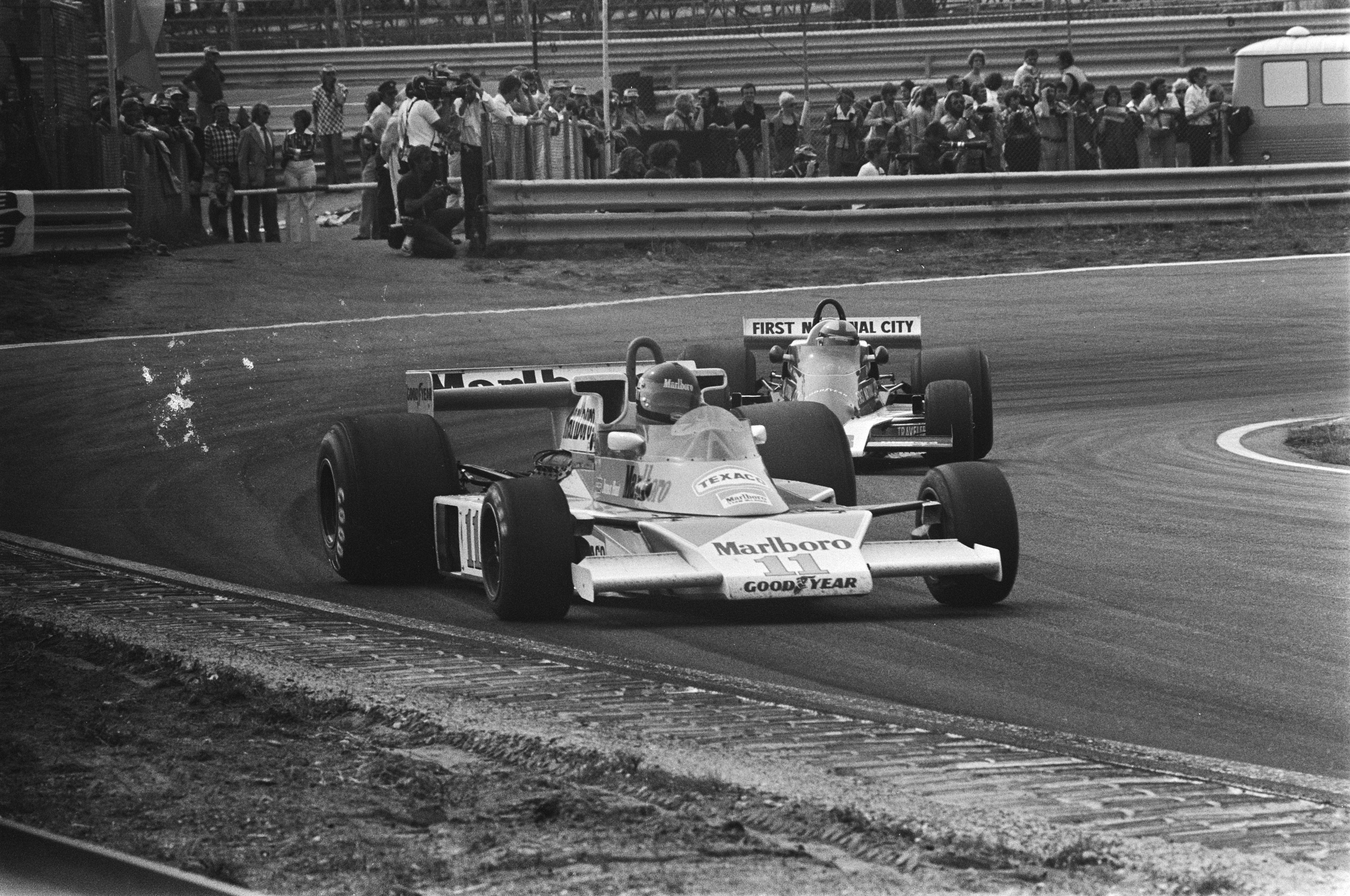 James Hunt leading John Watson in the 1976 Dutch Grand Prix